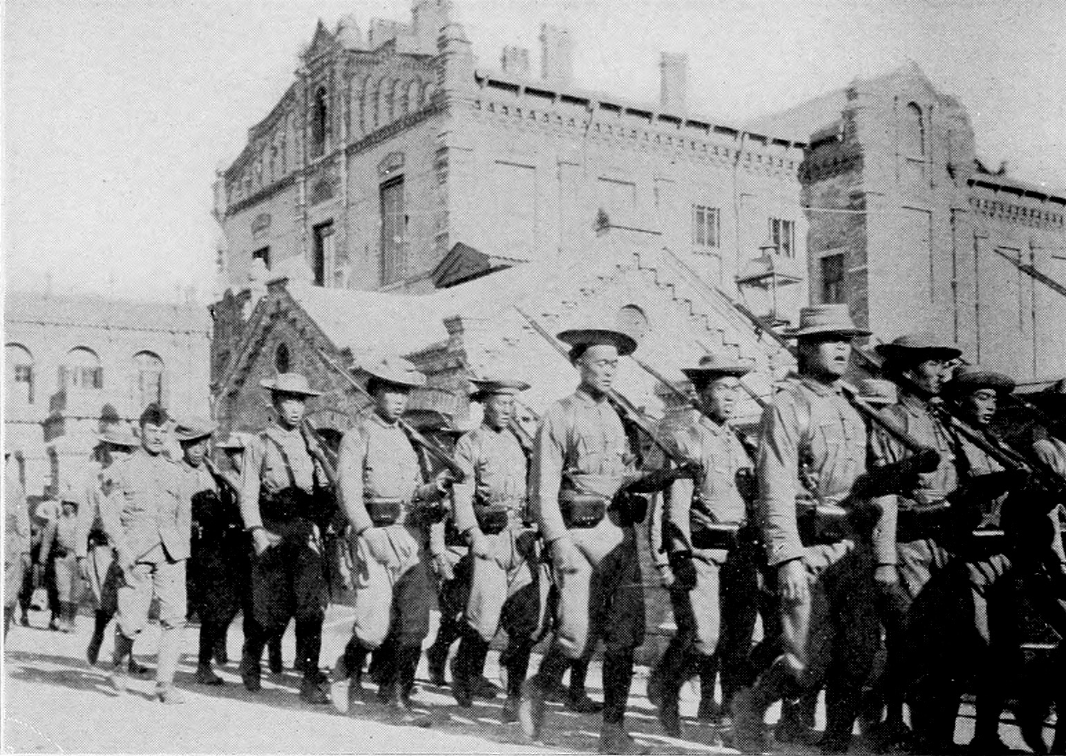 Photo from China in Convulsion (1901)